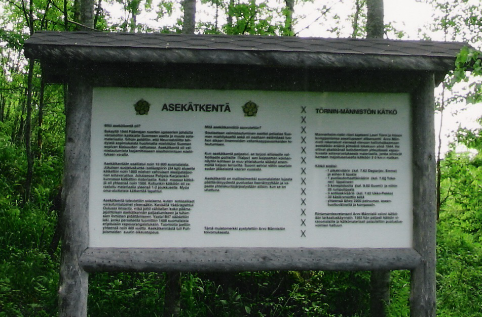 A sign of the Törni–Männistö weapons cache in Eno, Finland